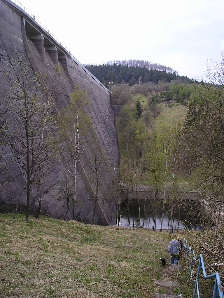 Dam of Fláje Reservoir, Czech Republic.